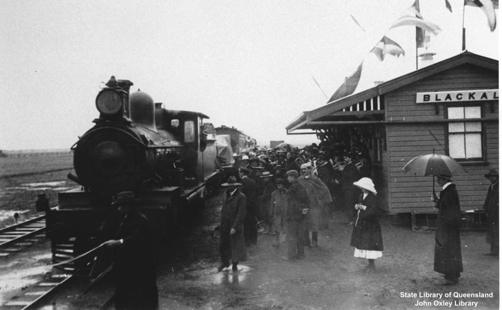 Creator: Unidentified Location: Blackall, Queensland Description: Official dignitaries, in the rain, at the opening of the Blackall Railway Line. Crowds have gathered on the platform to view the opening by the Hon. George Kerr, Minister for Railways, in 1908. View this image at the State Library of Queensland: Information about State Library of Queensland’s collection: You are free to use this image without permission. Please attribute State Library of Queensland.